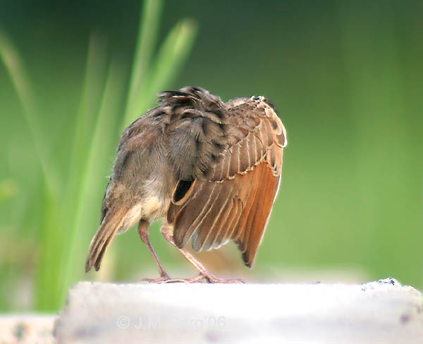 Bengal bushlark Mirafra assamica in Kolkata, West Bengal, India.